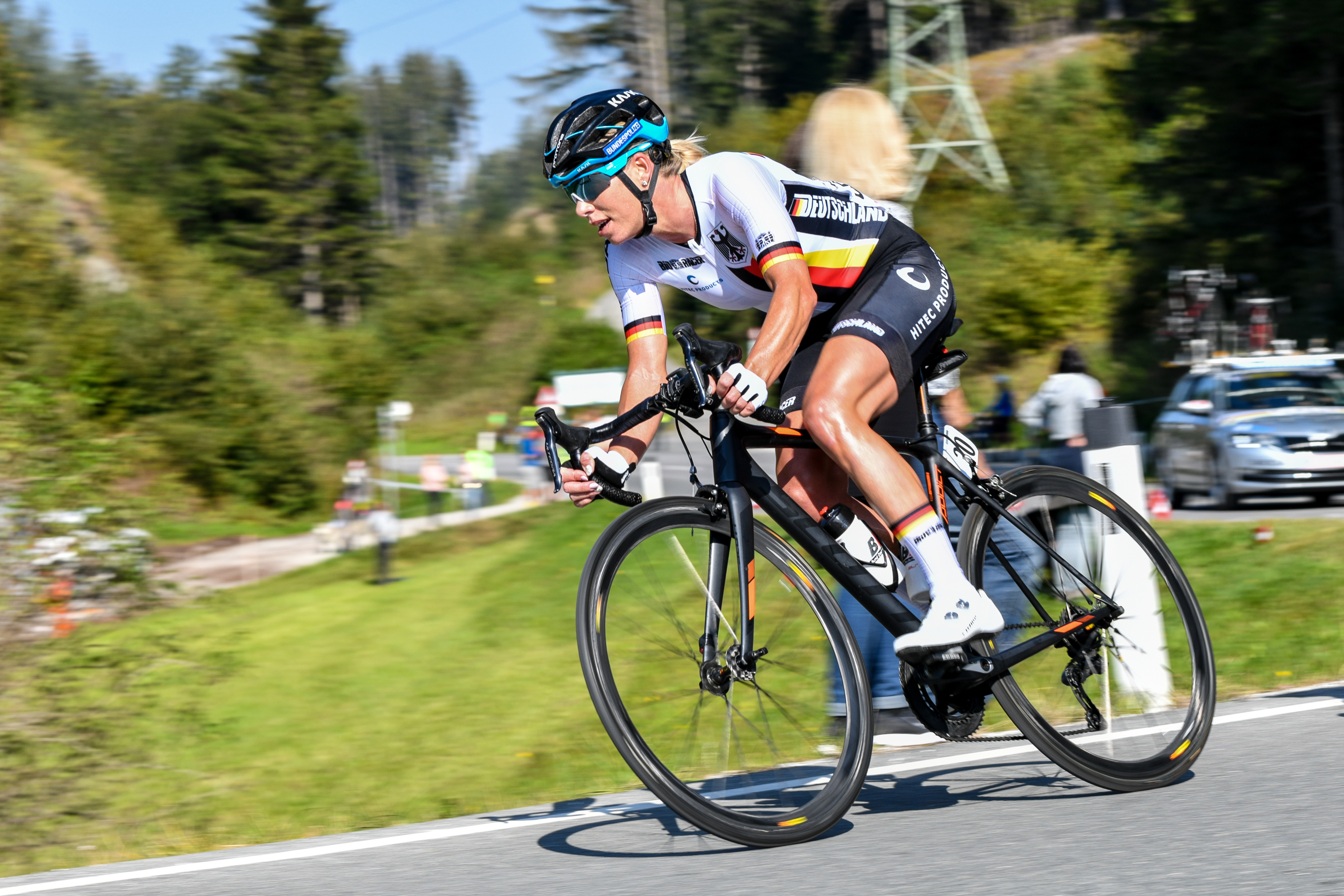 2018 UCI Road World Championships Innsbruck/Tirol Women Elite Road Race. Picture shows: Charlotte Becker of Germany